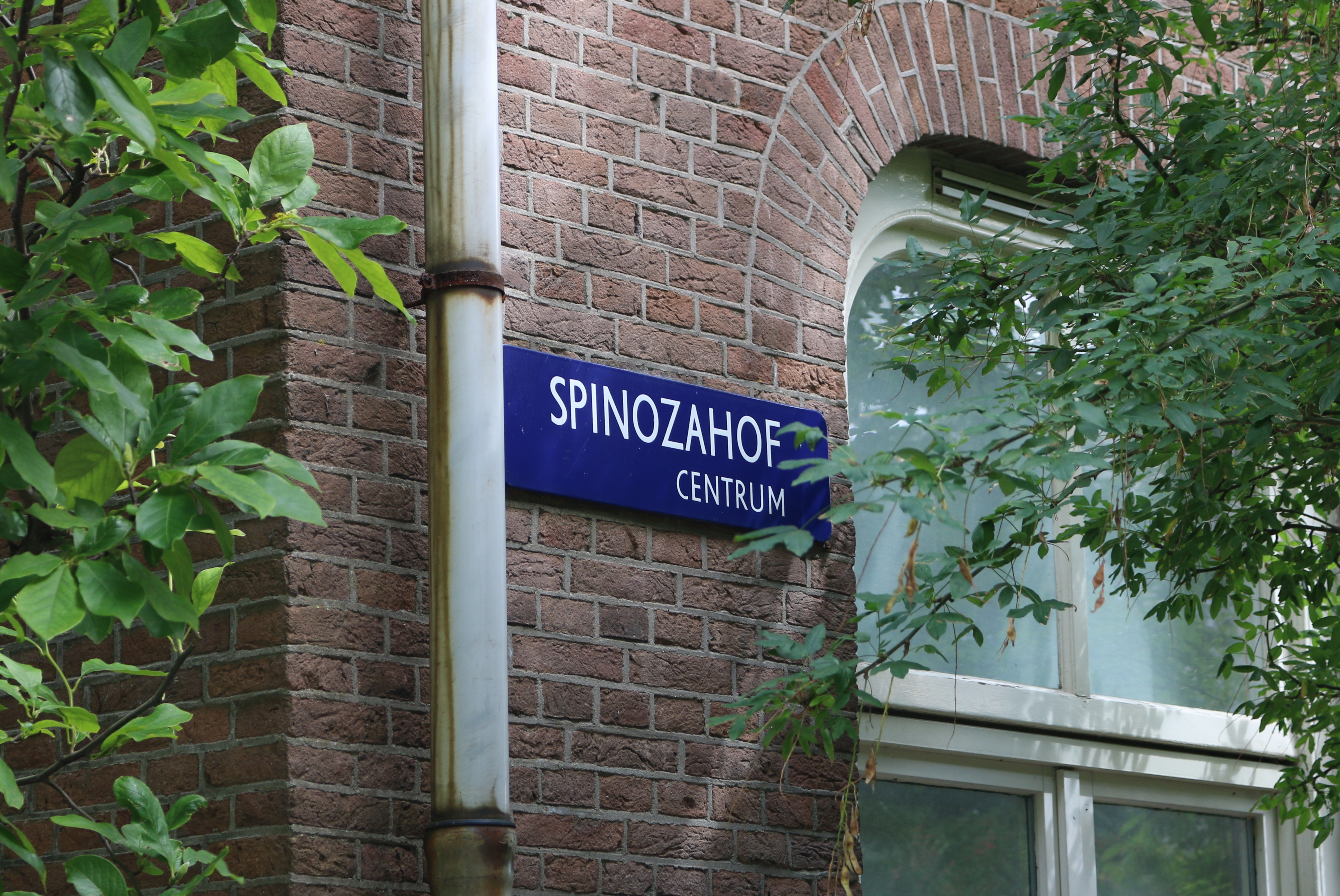 Spinozahof in Amsterdam - Photo by Persian Dutch Network